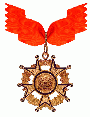 Order of the Praiseworthy (Wisam al-Hamudieh): founded by Sultan Sayyid Hamud bin Muhammad in 1897 Obsolete in 1911